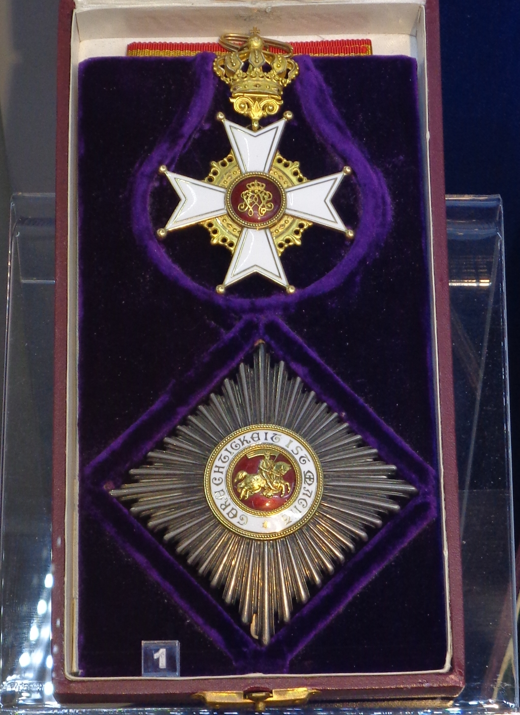 Order of Berthold I, insignias of Commander 1st class, 1880. Grand Duchy of Baden. The exhibition of the Tallinn Museum of Orders of Knighthood, Estonia.